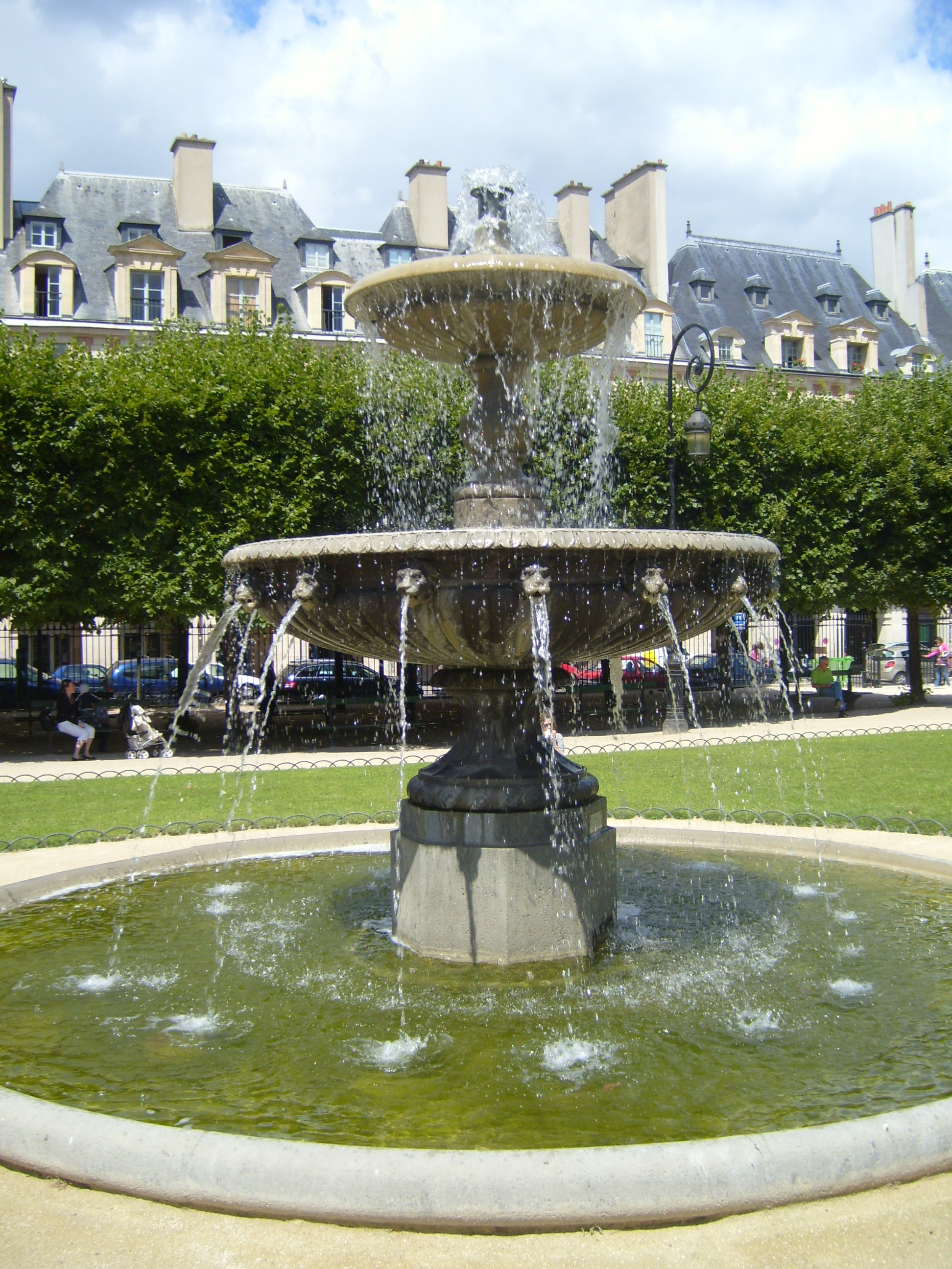 Fountain in the Place des Vosges. 1811, Girard, replaced in 1824, and about 1830. Jean-Francois Menager, architect.